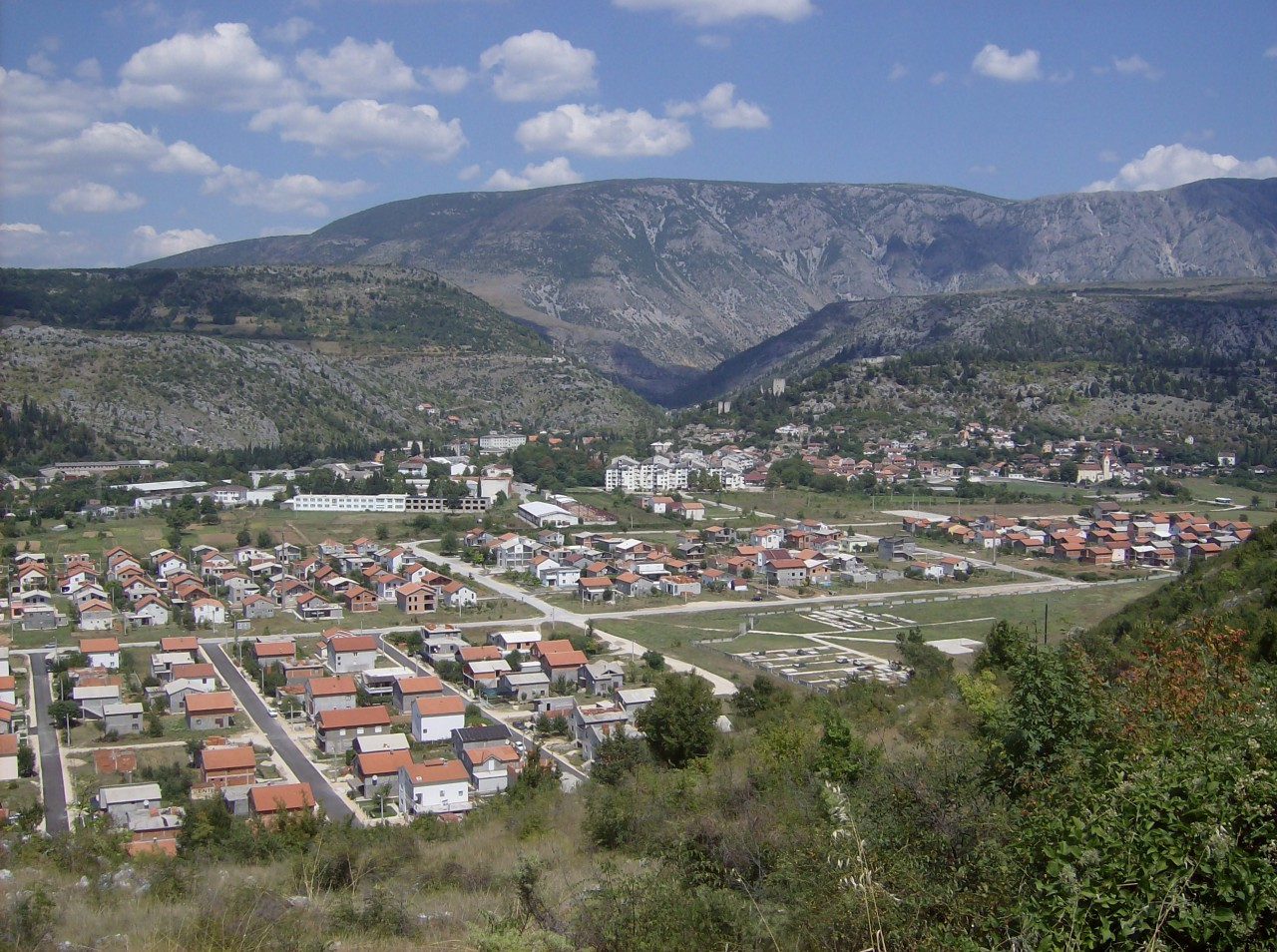 City of Stolac (Bosnia and Hercegovina)